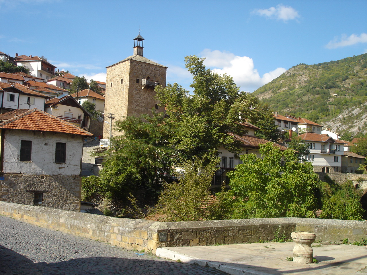 The Clock Tower in Kratovo, Macedonia